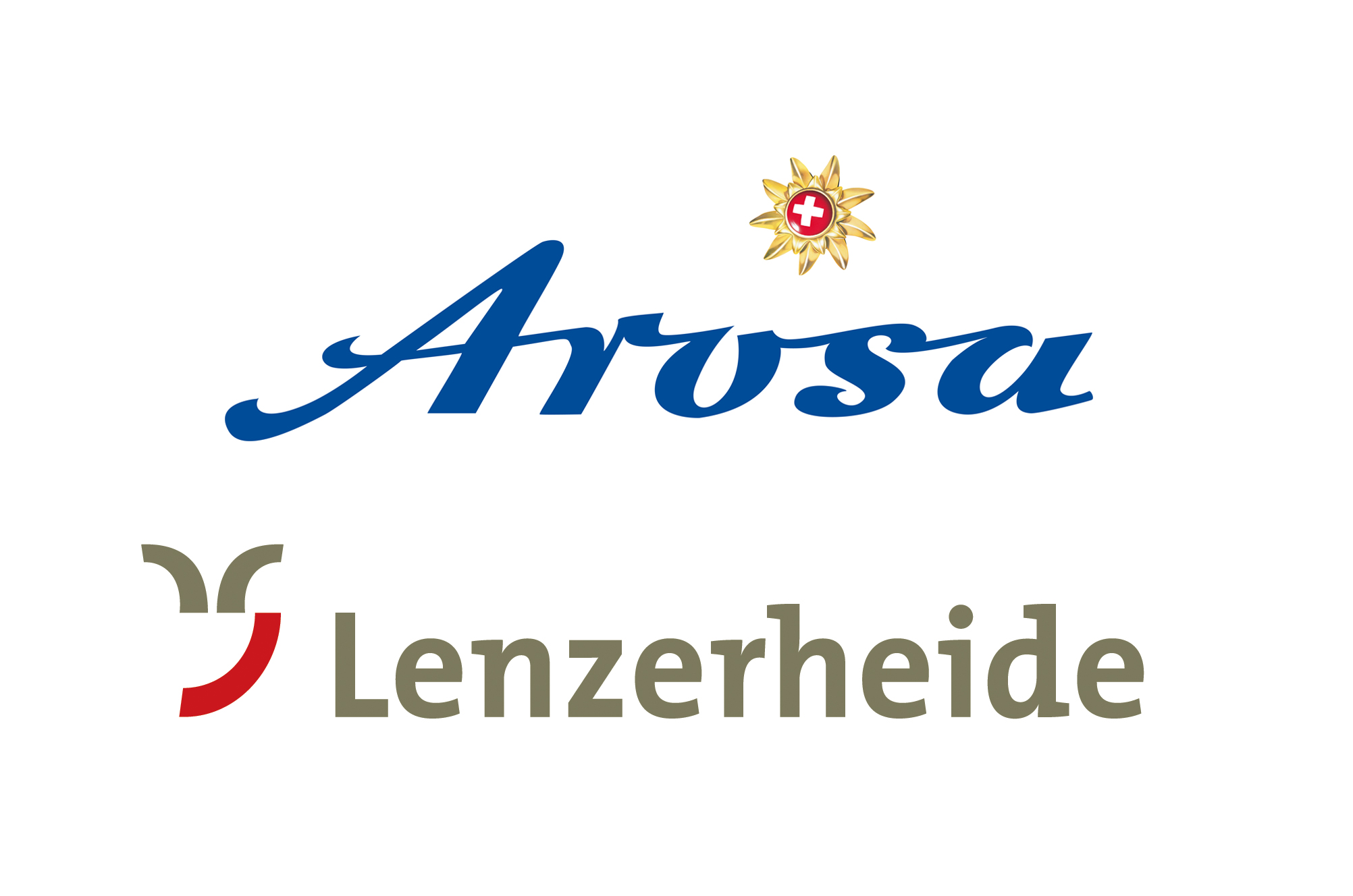 Logo of Swiss Ski Resort Arosa Lenzerheide